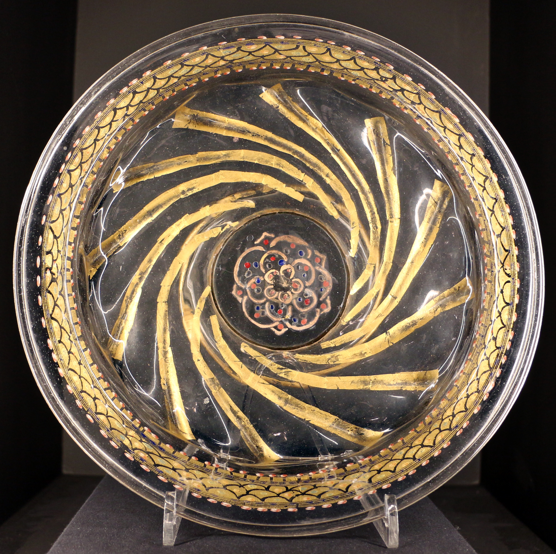 Courtesy of Altomani & Sons (n. 177)